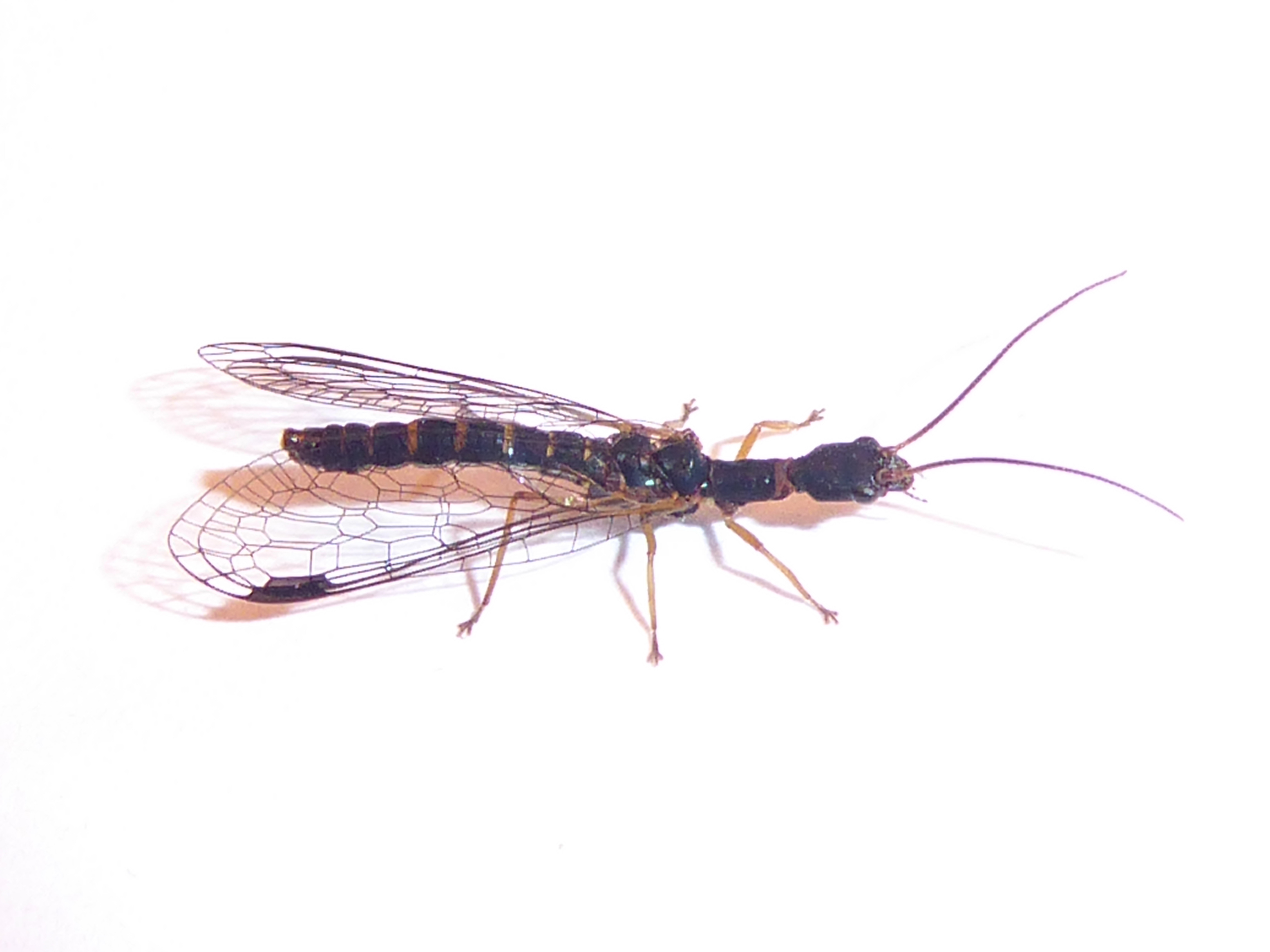 Unidentified Inocelliidae photographed in Piazzo (Segonzano, Trentino, Italy), possibly Parainocellia bicolor, but could also belong to the genus Inocella